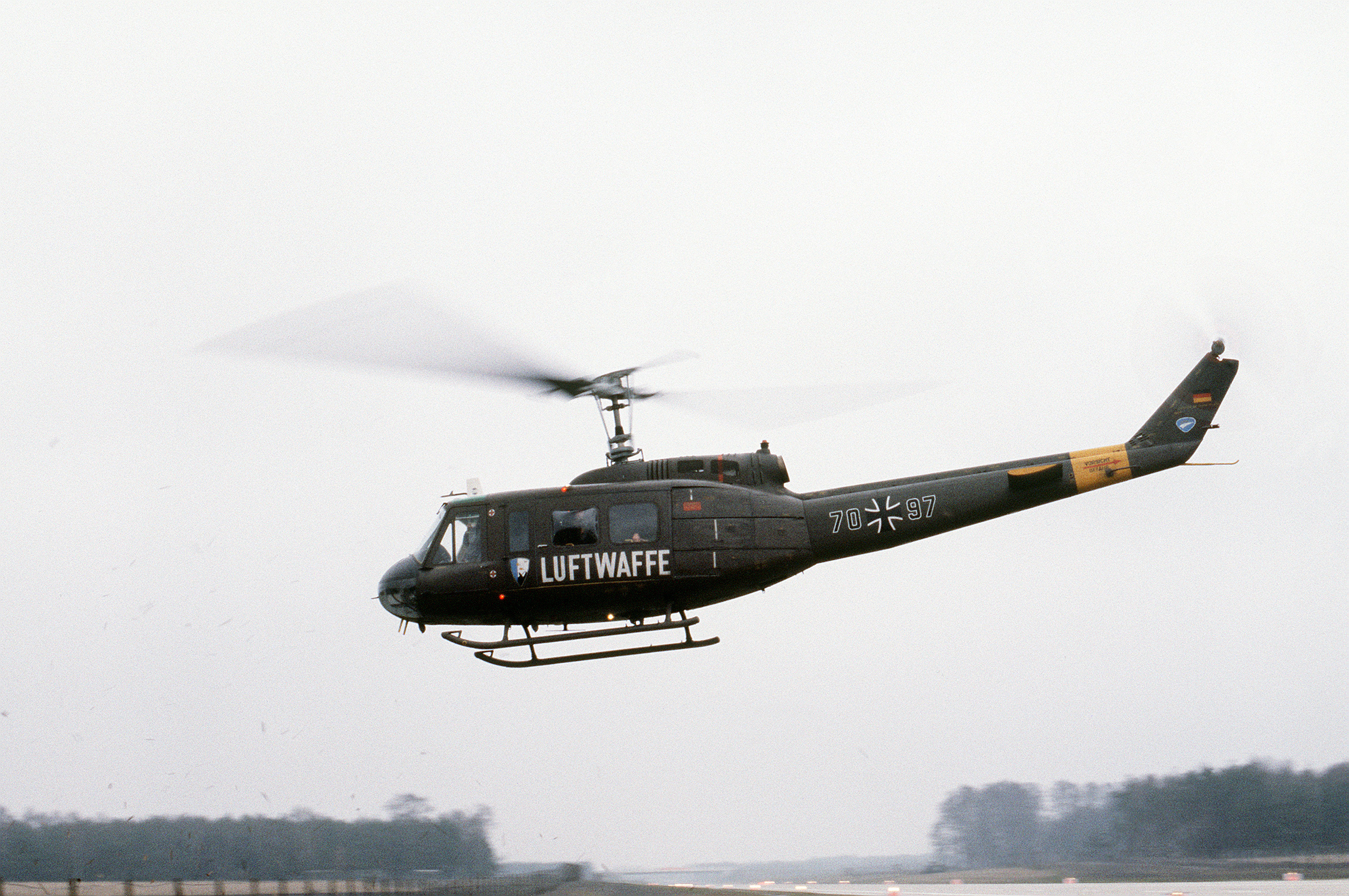 A Bell/Dornier UH-1D Huey of the German Lufwaffe (s/n 70+97) over the German Autobahn (interstate highway) A 29 near Ahlhorn, Lower Saxony (Federal Republic of Germany), on 28 March 1984. This part of the A 29 was a NATO emergency airstrip which was used for 48 hours as such during the "Highway 84" excercise, before it was officially opened for traffic.